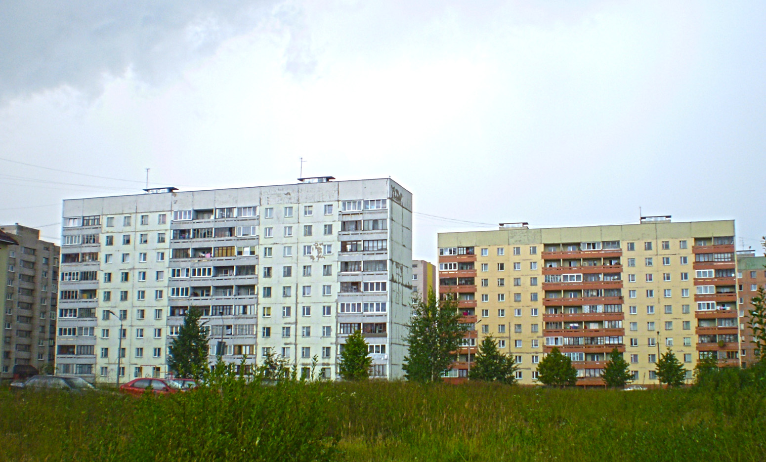 Apartment houses in Narva, Estonia.